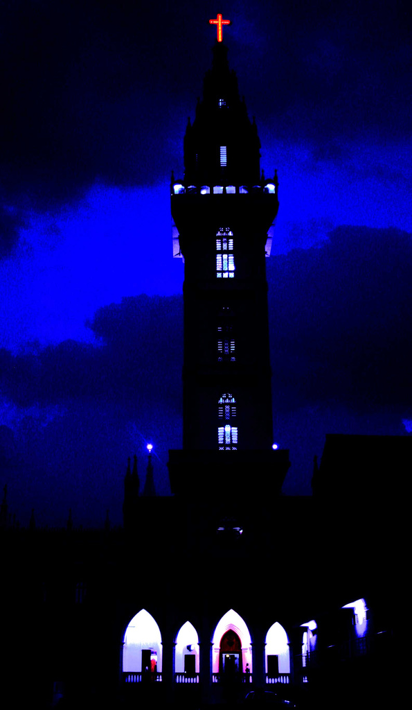 Bible towerBible tower